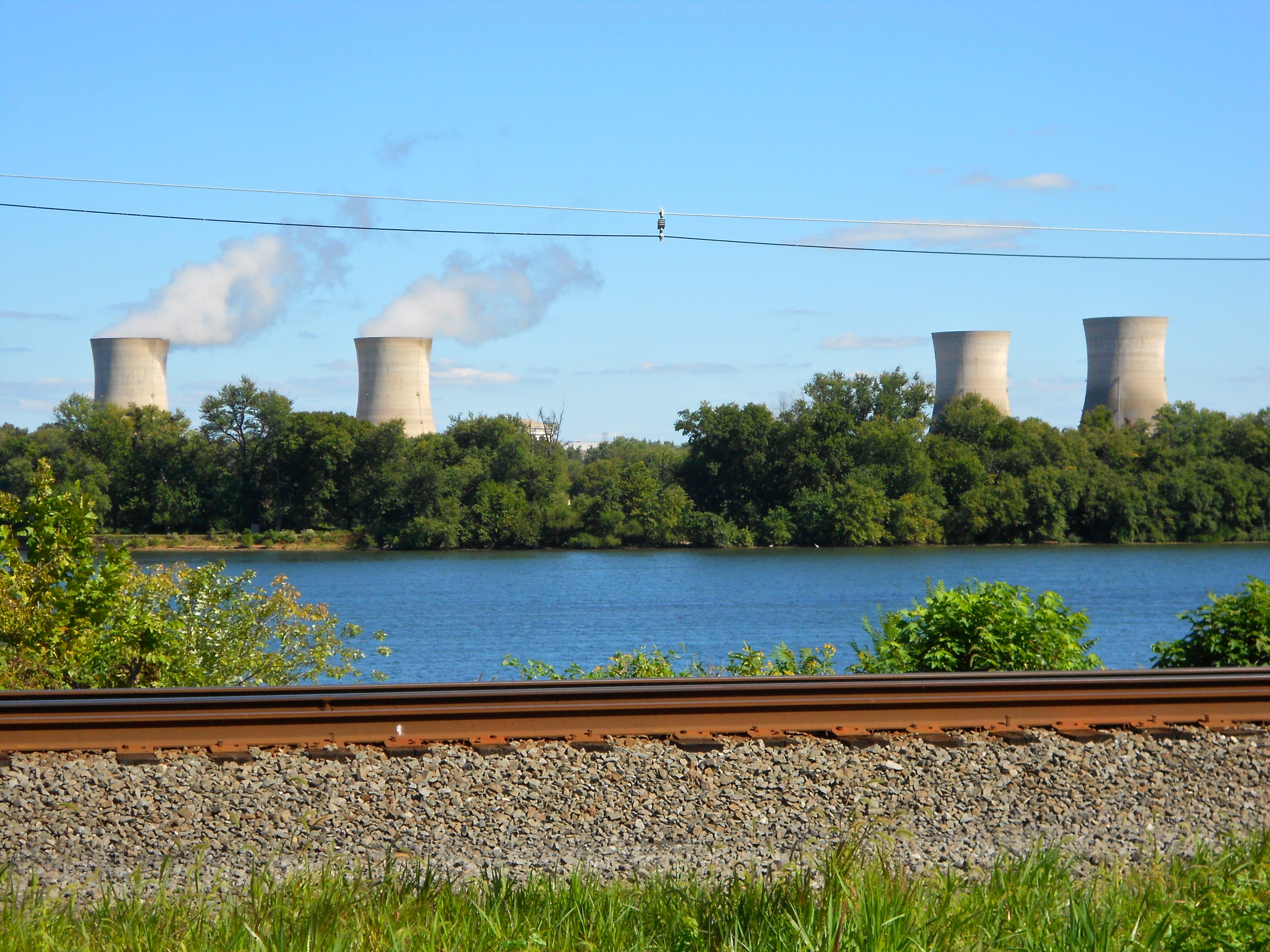 Three Mile Island Nuclear Plant as viewed from Goldsboro Historic District (this side of the tracks). The historic district was listed on the NRHP on June 14, 1984 and is roughly bounded by North, 3rd, Fraser, and Railroad Streets, in Goldsboro, York County, Pennsylvania